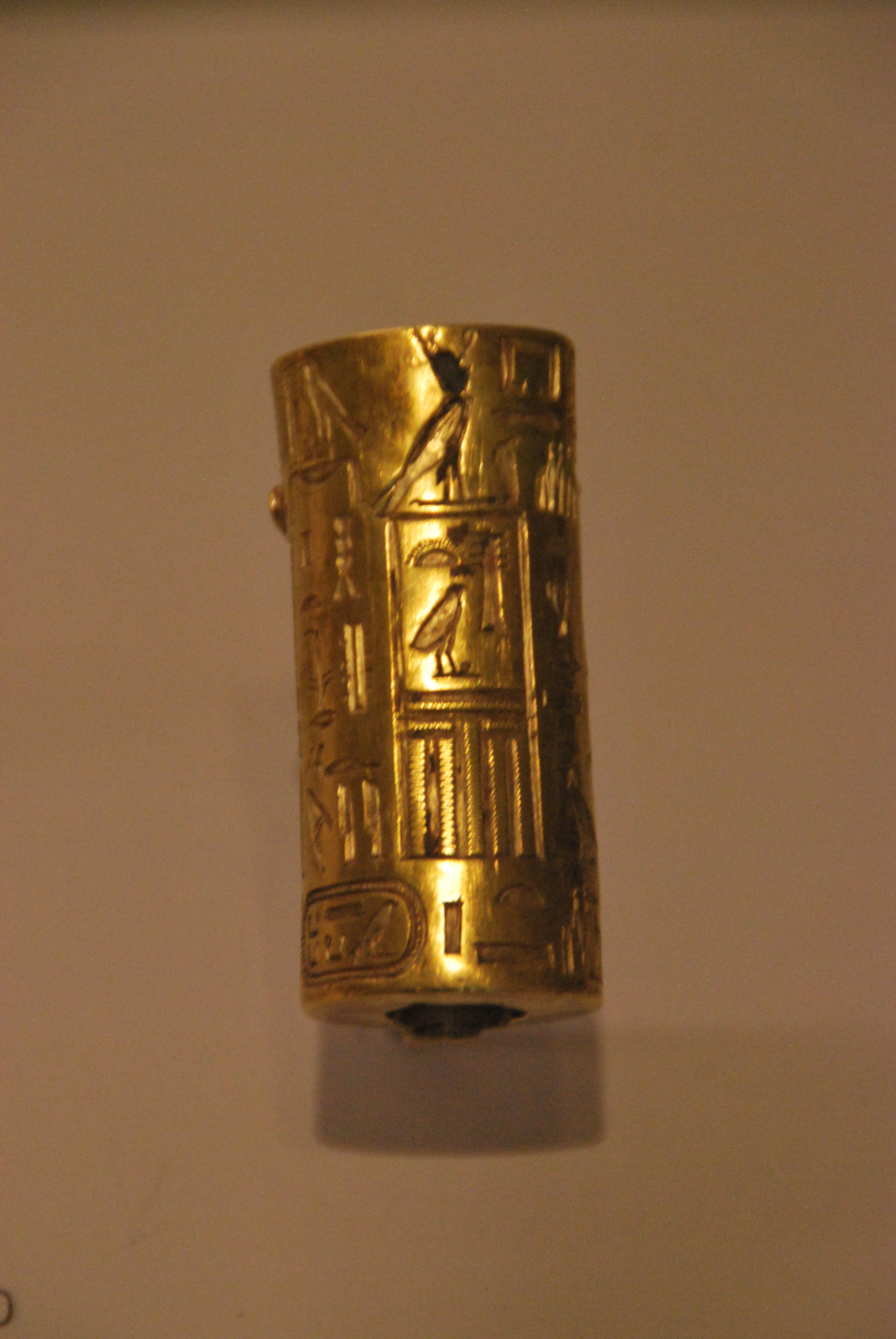 A gold cylander seal bearing the names and titles of the pharaoh Djedkare Isesi. From the 5th dynasty, reign of Djedkare Isesi, circa 2381-2353 B.C. Now at the Museum of Fine Arts, Boston. Museum catalog number: 68.115.